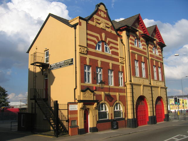 The Old Fire Station, Bordesley Green. The old Fire Station in Bordesley Green has recently been renovated and turned into offices and flats.